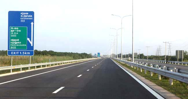 CKE-EO3